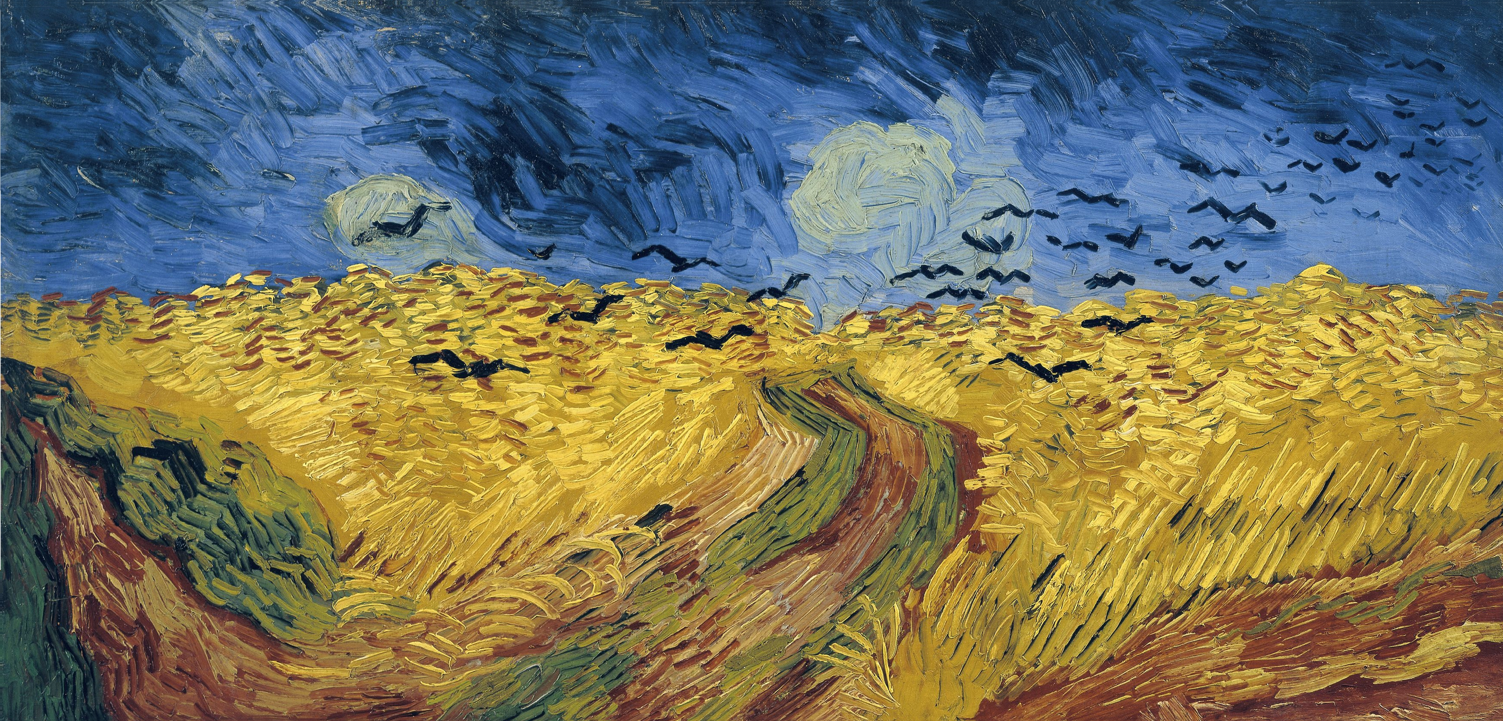 "Wheatfield with Crows" July 1890 oil on canvas 101x50cm Van Gogh Museum, Amsterdam